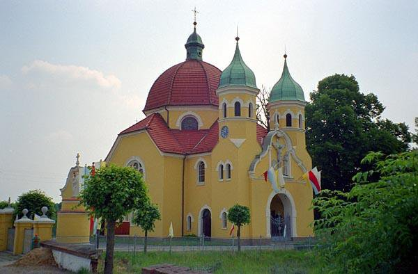 Nekla in Poland